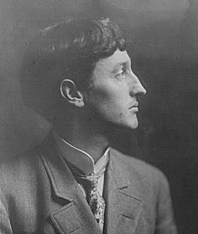 Amercian poet George Sterling (1869–1926)